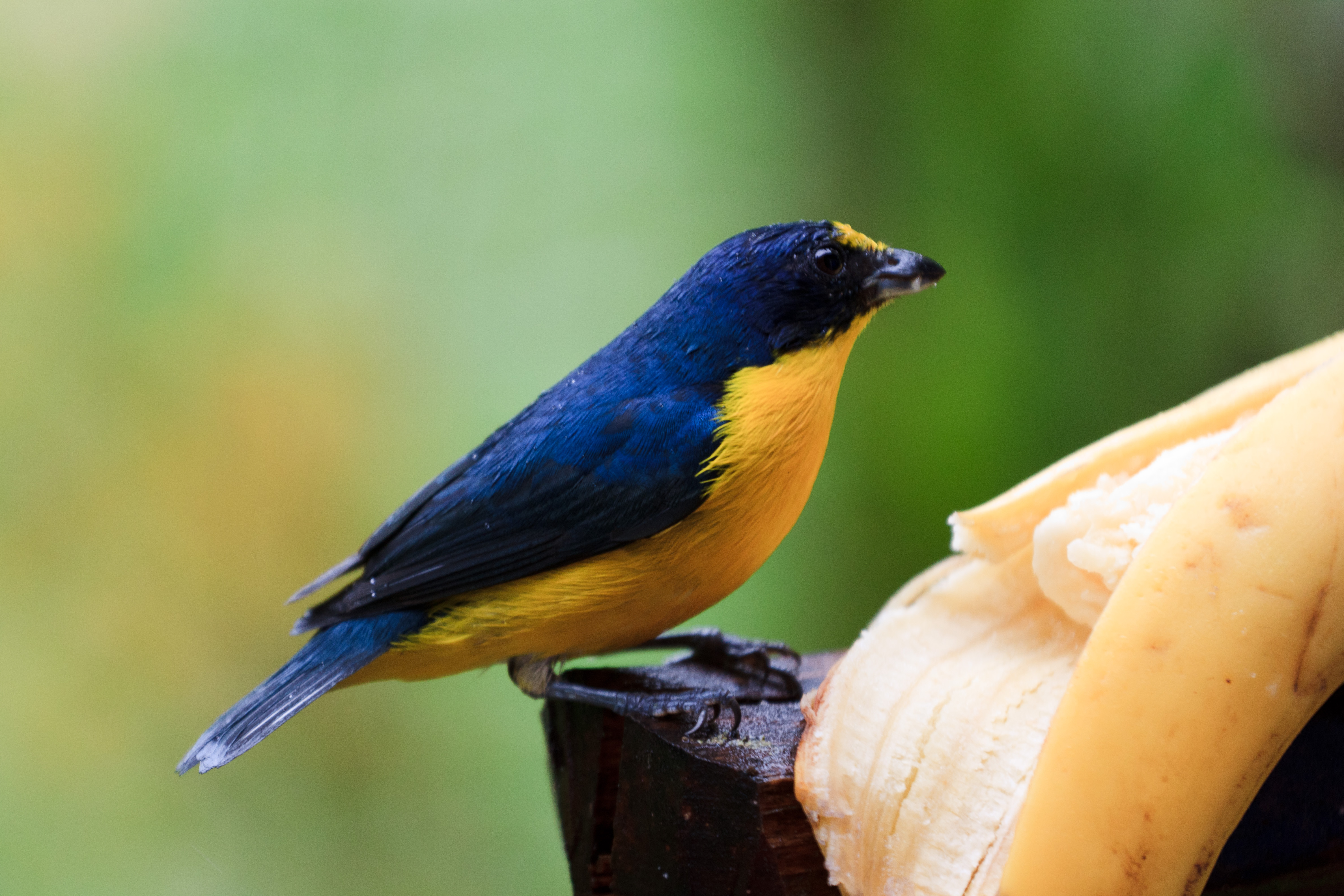 A male Yellow-throated Euphonia in Costa Rica.